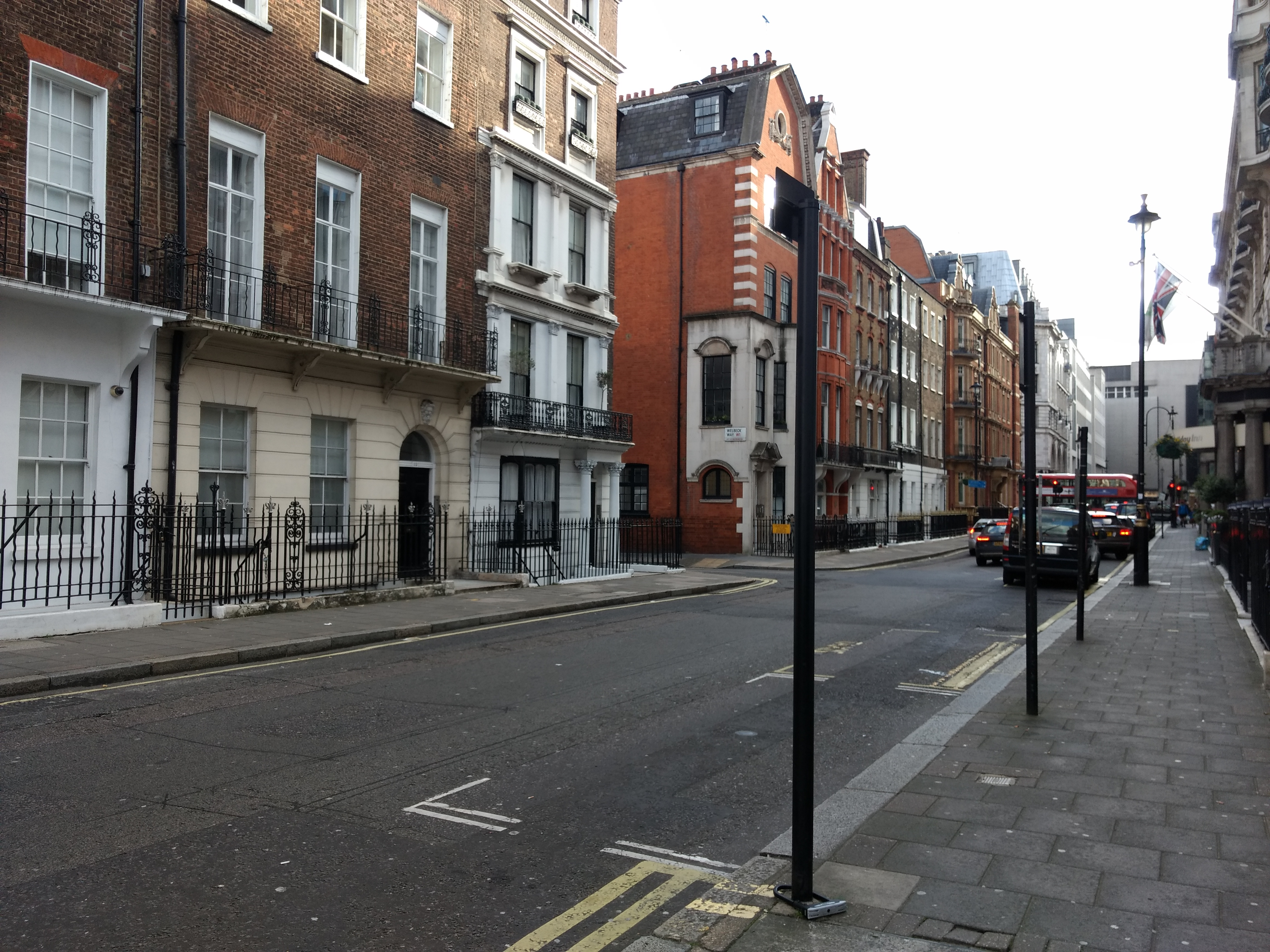 London